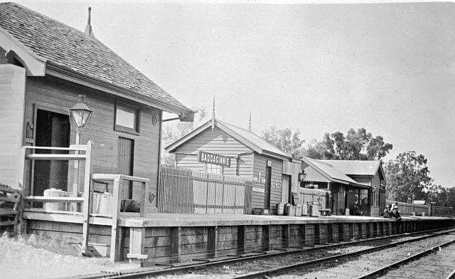 Baddaginnie railway station, Victoria circl 1905